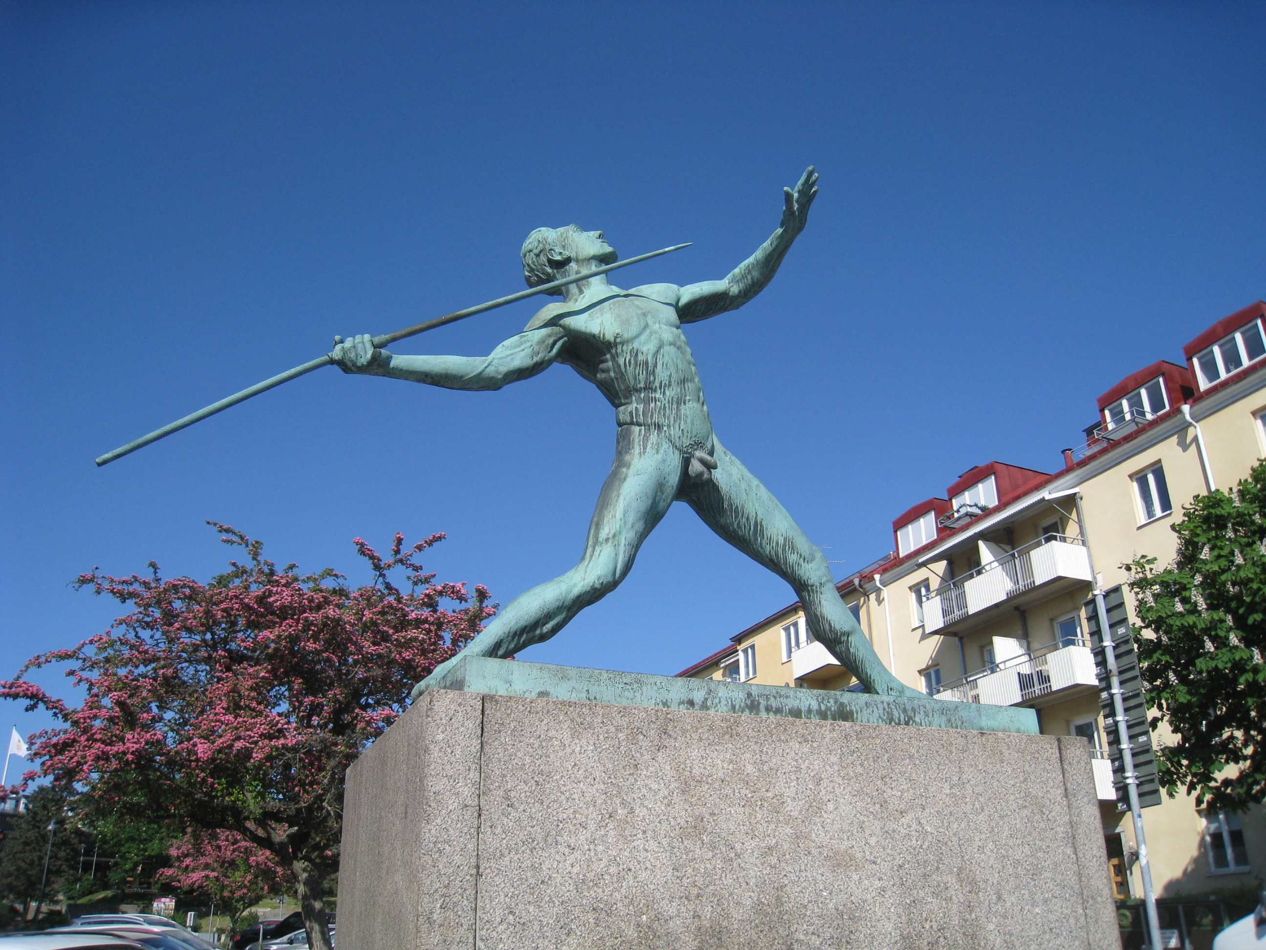 The sculpture "Javelin-thrower" (1939) in bronze in central Sundbyberg by Carl Fagerberg. The sculpture "Javelin-thrower" (1939) in bronze on its base at Rondellen, at Tulegatan on Fredsgatan's driveway towards Sundbyberg's sports center in Central Sundbyberg, sculpted by the Swedish sculptor Carl Fagerberg (1878-1948). The sculpture is in close proximity to Sundbyberg's sports ground.